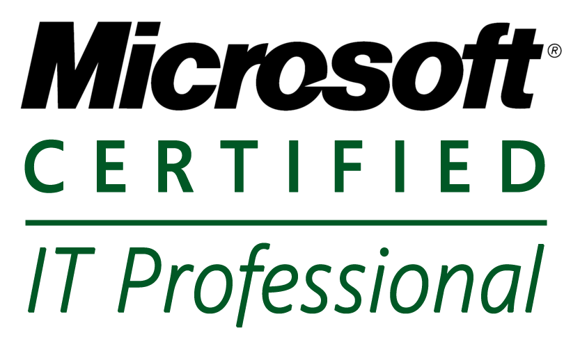 Microsoft Certified IT Professional